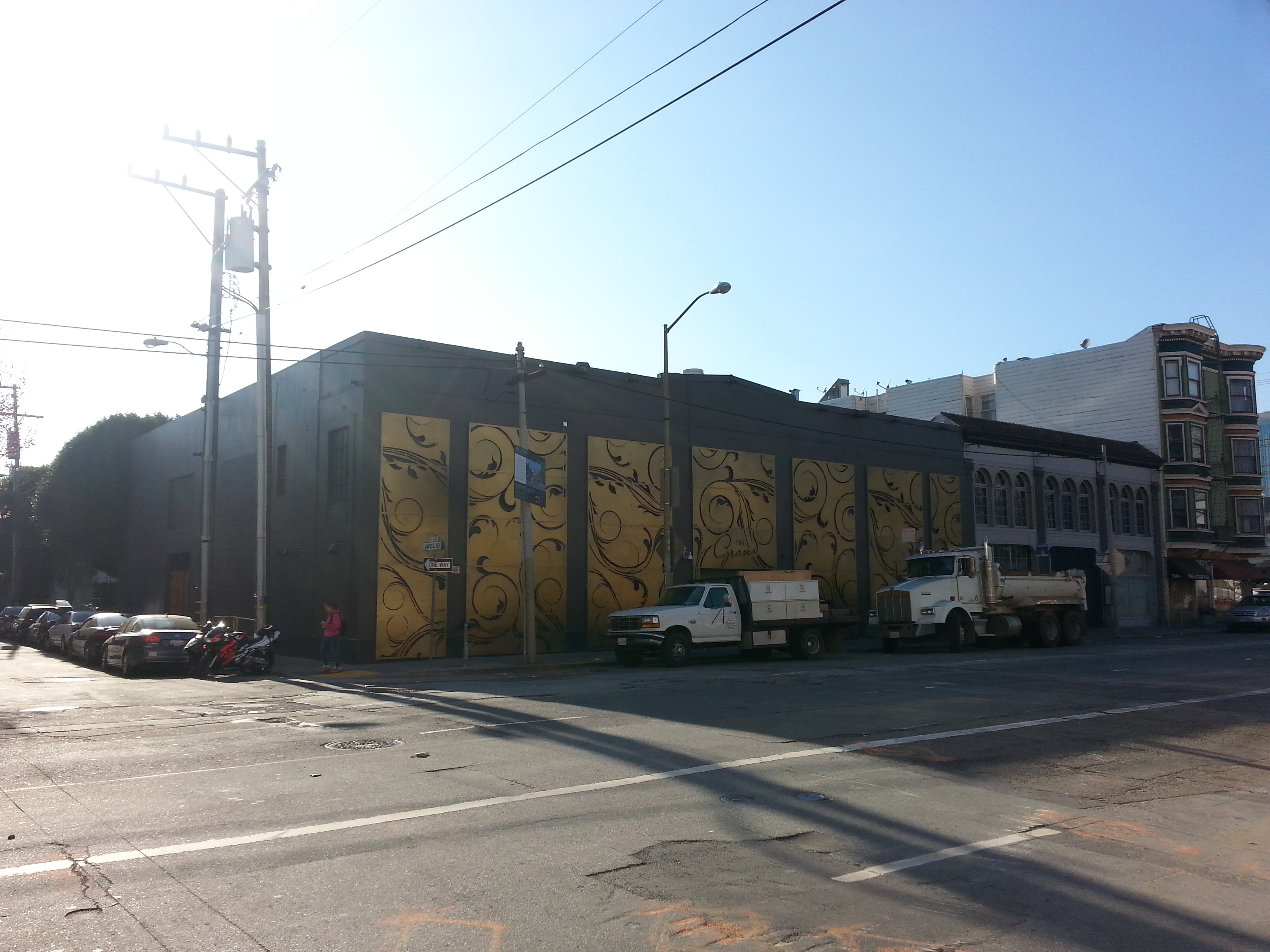 The Grand exterior